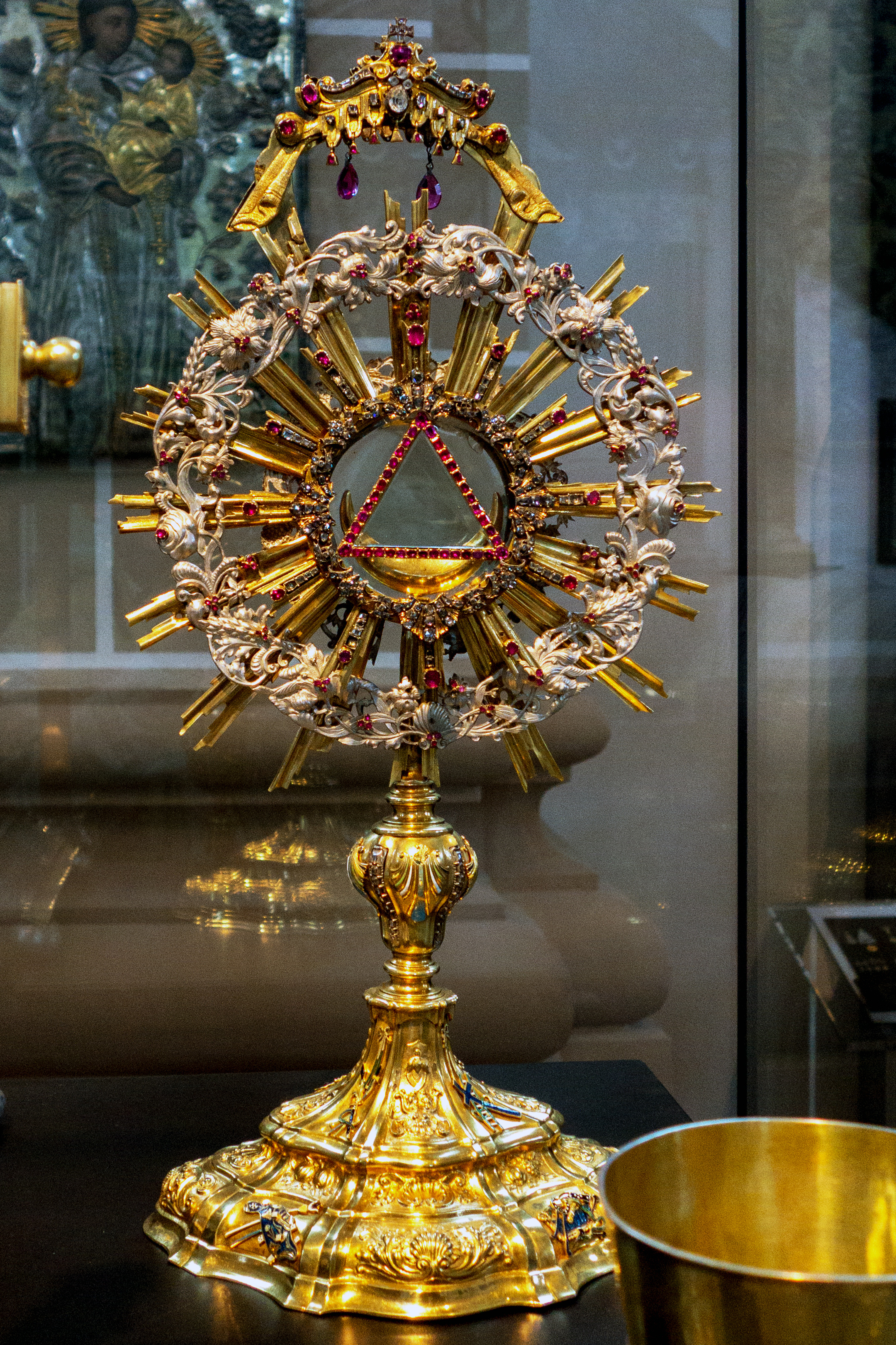 The silver monstrance, Church Heritage Museum in Vilnius. Vilnius - before 1744. This monstrance was transferred to the Vilnius Cathedral from the Jesuit Church of St. Casimir in Vilnius, closed by the tsarist administration. The Bishop of Smolensk Boguslavas Korvinas Gosievskis (Bogusław Korwin Gosiewski) and probably his elder sister Teresė Gosievskytė-Sapiegienė are considered its donators.